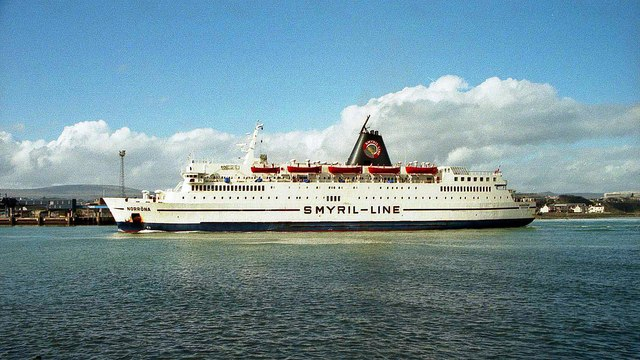 The "Norrona" at Larne Traditionally the first few months of each year saw various visiting ferries covering while the usual ones went off for annual overhaul. In 1995 the “Norrona” of the Faroese Smyril Line operated between Larne and Stranraer. Having a slightly deeper draught than the route’s normal vessels she was subject to certain tidal restrictions at Stranraer.